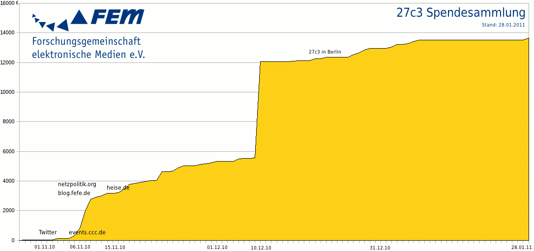 chart of the 27C3 fundraising campaing from november 2010 till 28th januar 2011.